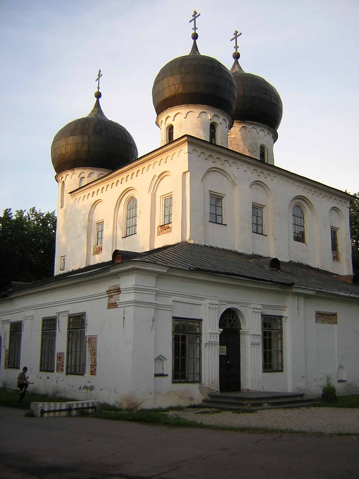 Cathedral of the nativity of Mother of God in Antoniev monastery. Veliky Novgorod